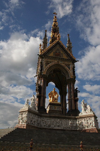 Albert Memorial.